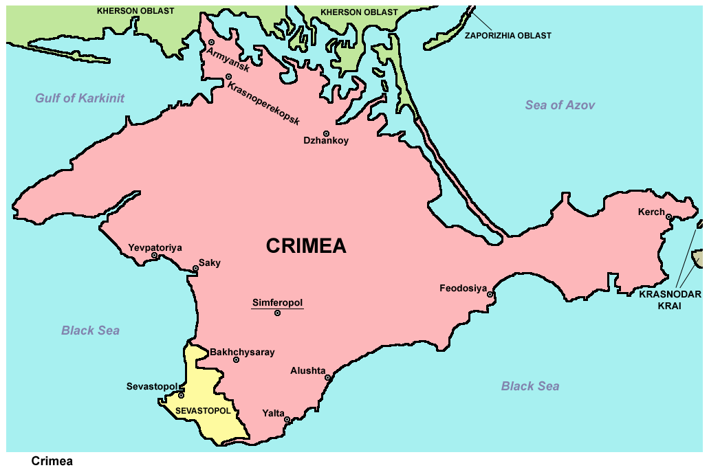 Politically neutral map of the disputed region of Crimea.